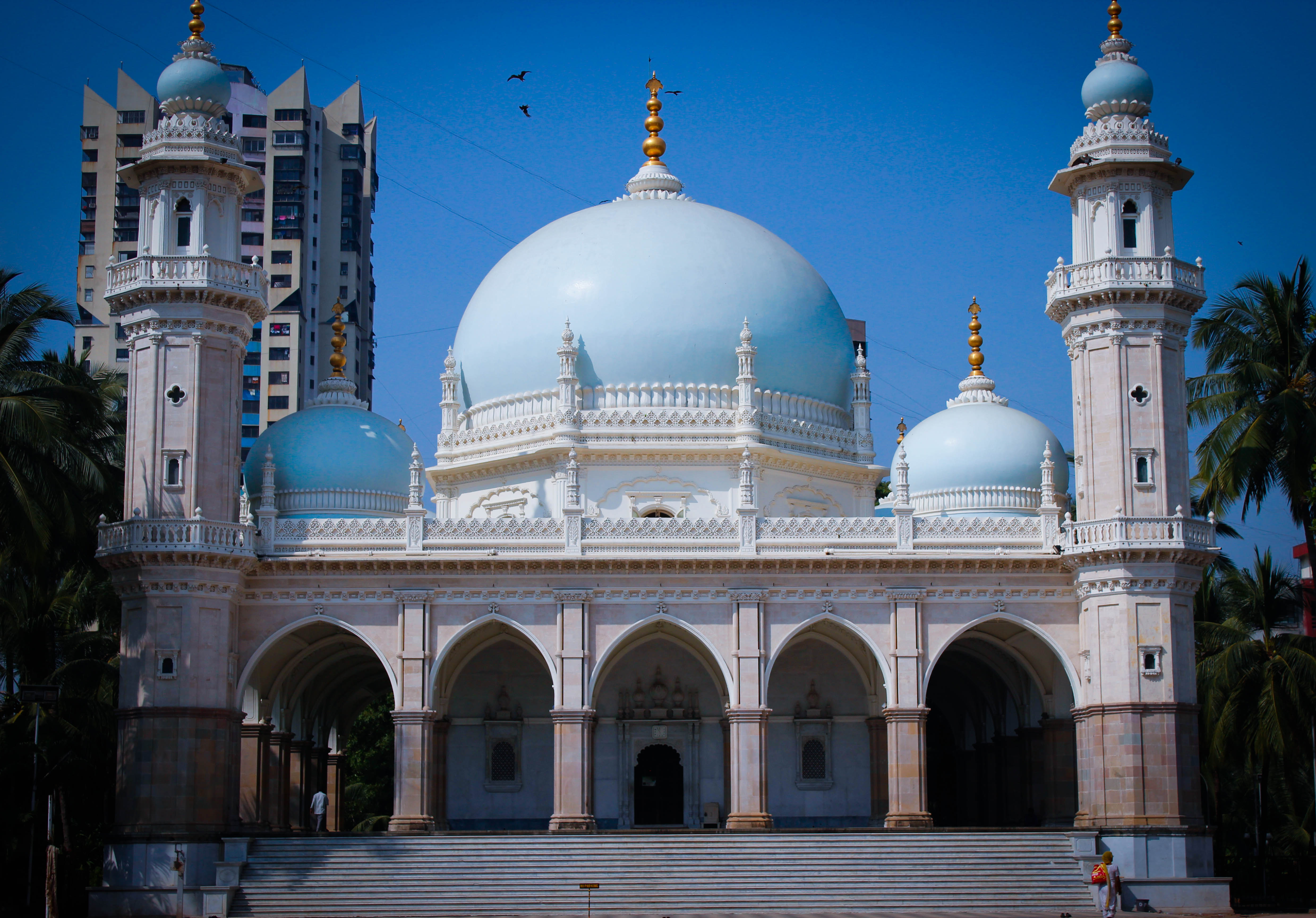 Shah Hasan Ali Shah's Maqbara, Hasanabad, Mazagaon. Also called Mazagon’s Taj Mahal because of its white dome and architecture.